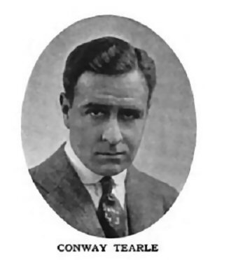 Actor Conway Tearle